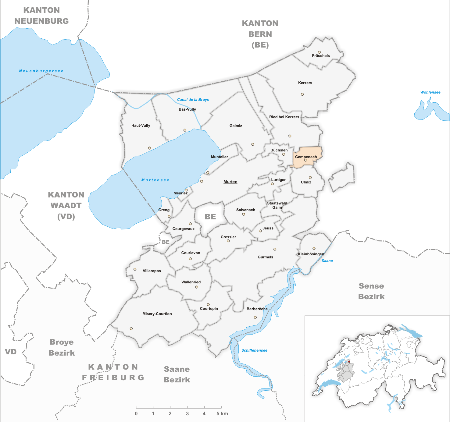 Municipality Gempenach